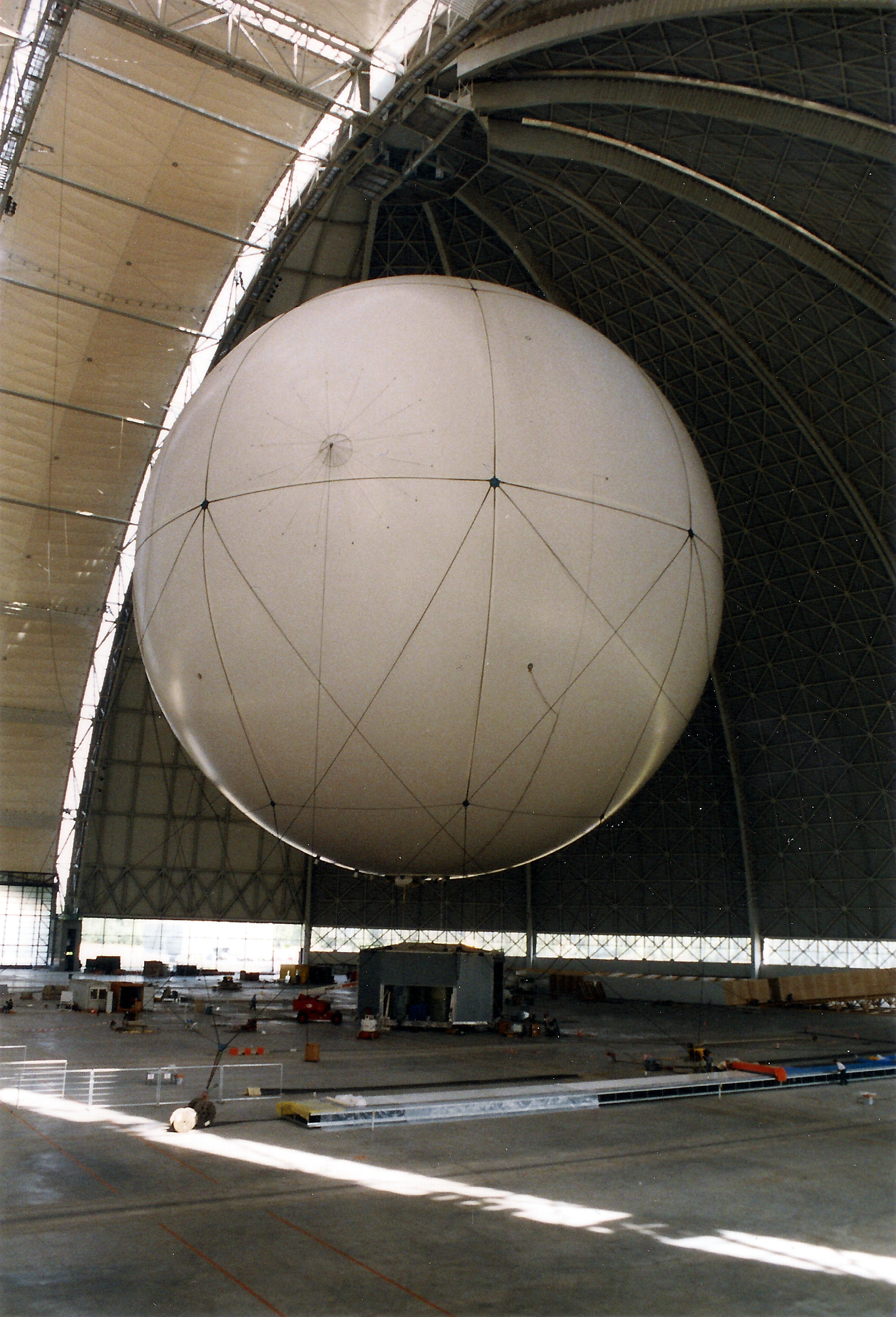 CargoLifter CL75 AirCrane A balloon for lifting cargo filed with helium inside the CargoLifter hangar